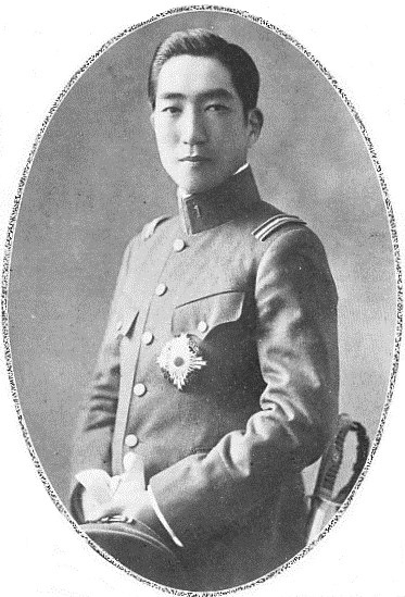 Prince Takeda Tsuneyoshi